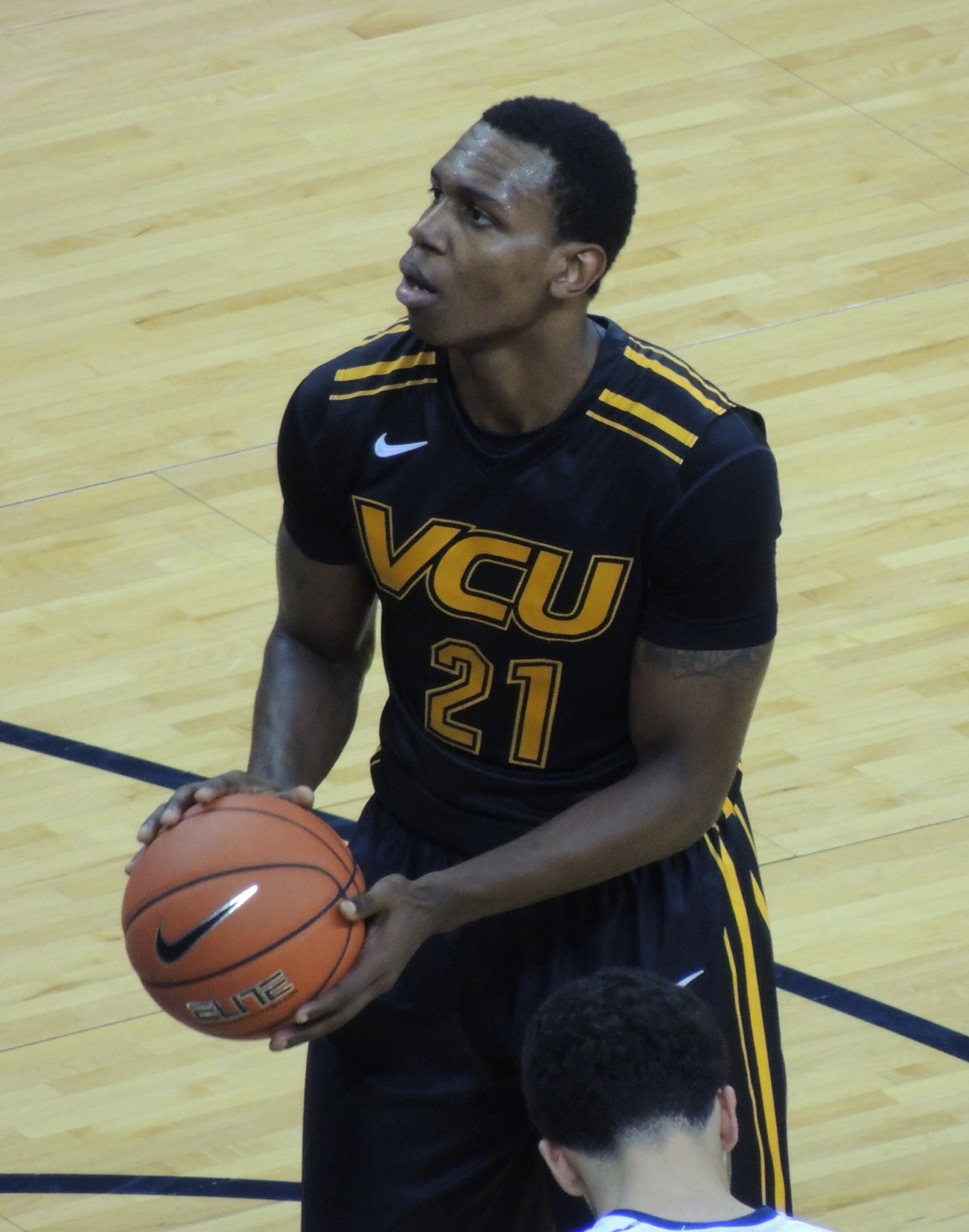 Treveon Graham of VCU shoots a free throw in a game at the University of Virginia on November 12, 2013